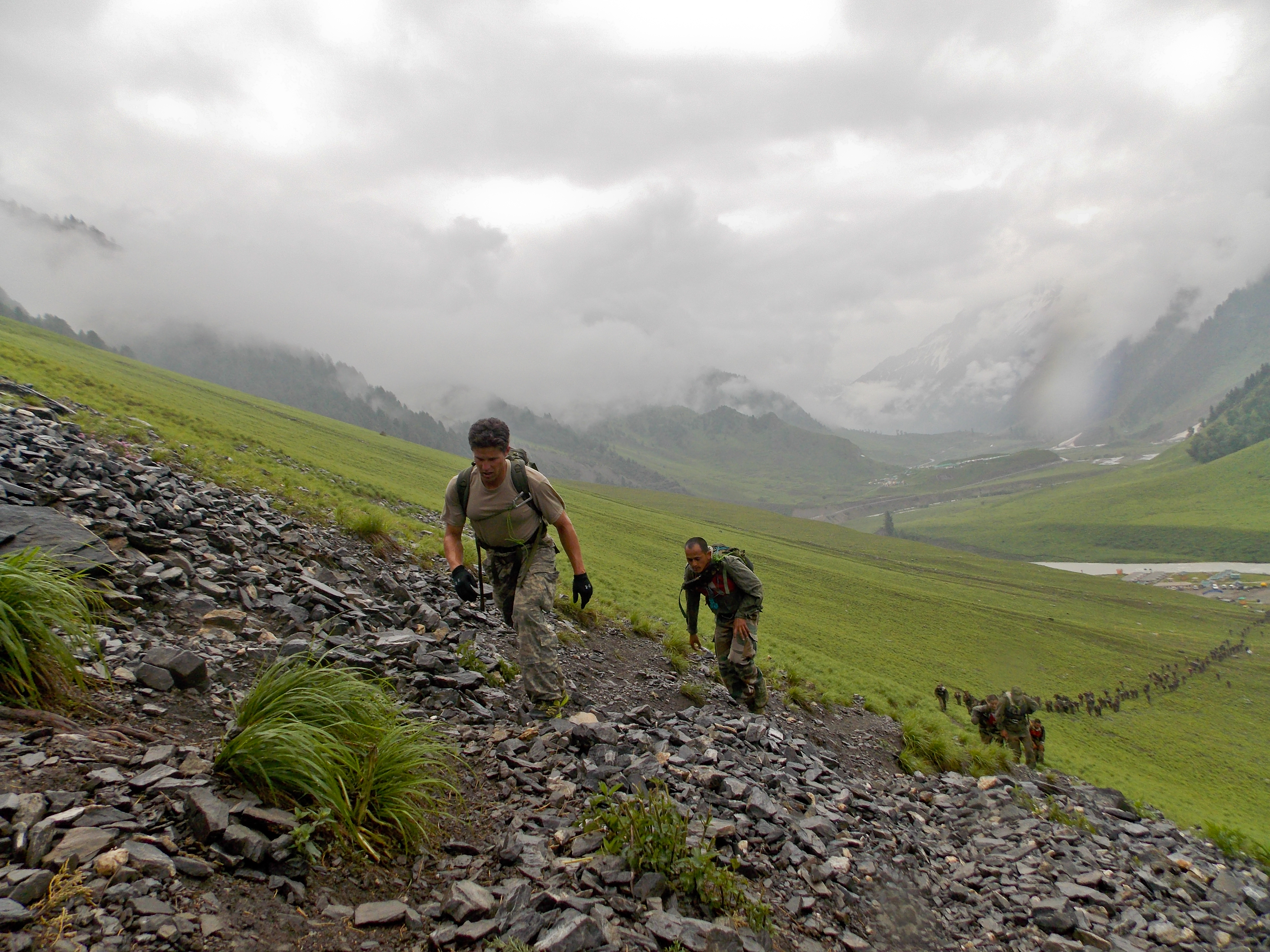 U.S. Army Capt. Mathew Hickey (left), with the 2nd Battalion, 377th Parachute Field Artillery Regiment, 4th Infantry Brigade Combat Team (Airborne), 25th Infantry Division, hailing from St. Paul, Minn., leads the way up a steep slope while on his way to winning an endurance test during training at the Indian Army's High Altitude Warfare School June 10, 2013 near Sonamarg, Jammu and Kashmir, India.